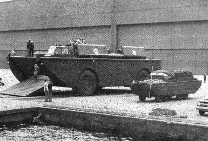 A U.S. Army LARC-LX (Lighter, Amphibious Resupply, Cargo, 60 ton), or as it was originally designated BARC (Barge, Amphibious Resupply, Cargo), a welded steel hulled amphibious cargo vehicle. It could carry up to 100 tons of cargo or 200 people, but a more typical load was 60 tons of cargo or 120 people. The first BARC had its maiden voyage in 1952 at Fort Lawton, Washington (USA), the last was retired in 2001. Note contrast to the the World War II DUKW.